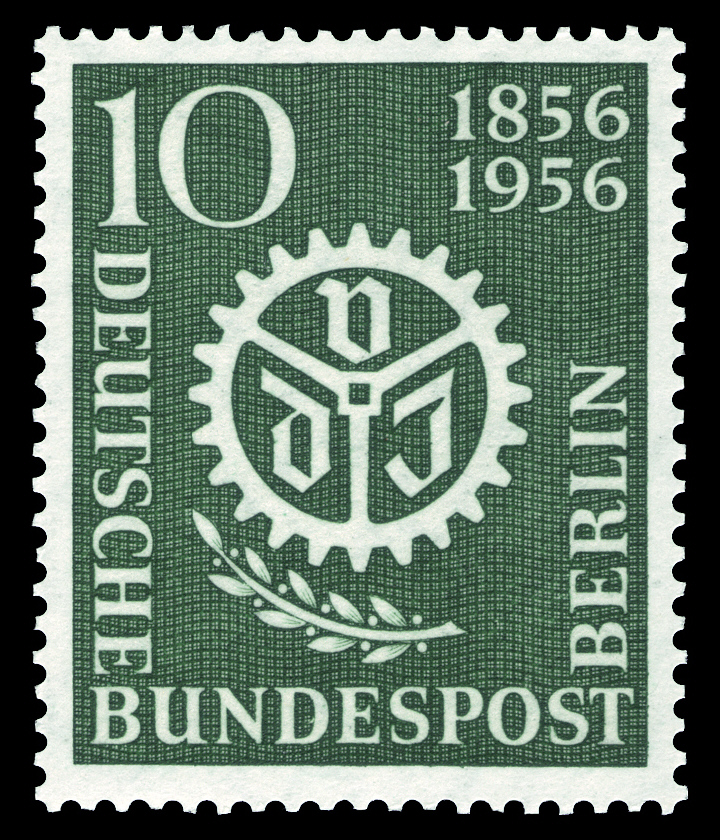 100 years of Association of German Engineers Graphics by Goldammer Ausgabepreis: 10 Pfennig First Day of Issue / Erstausgabetag: 12. Mai 1956 Michel-Katalog-Nr: 138 (Berlin)